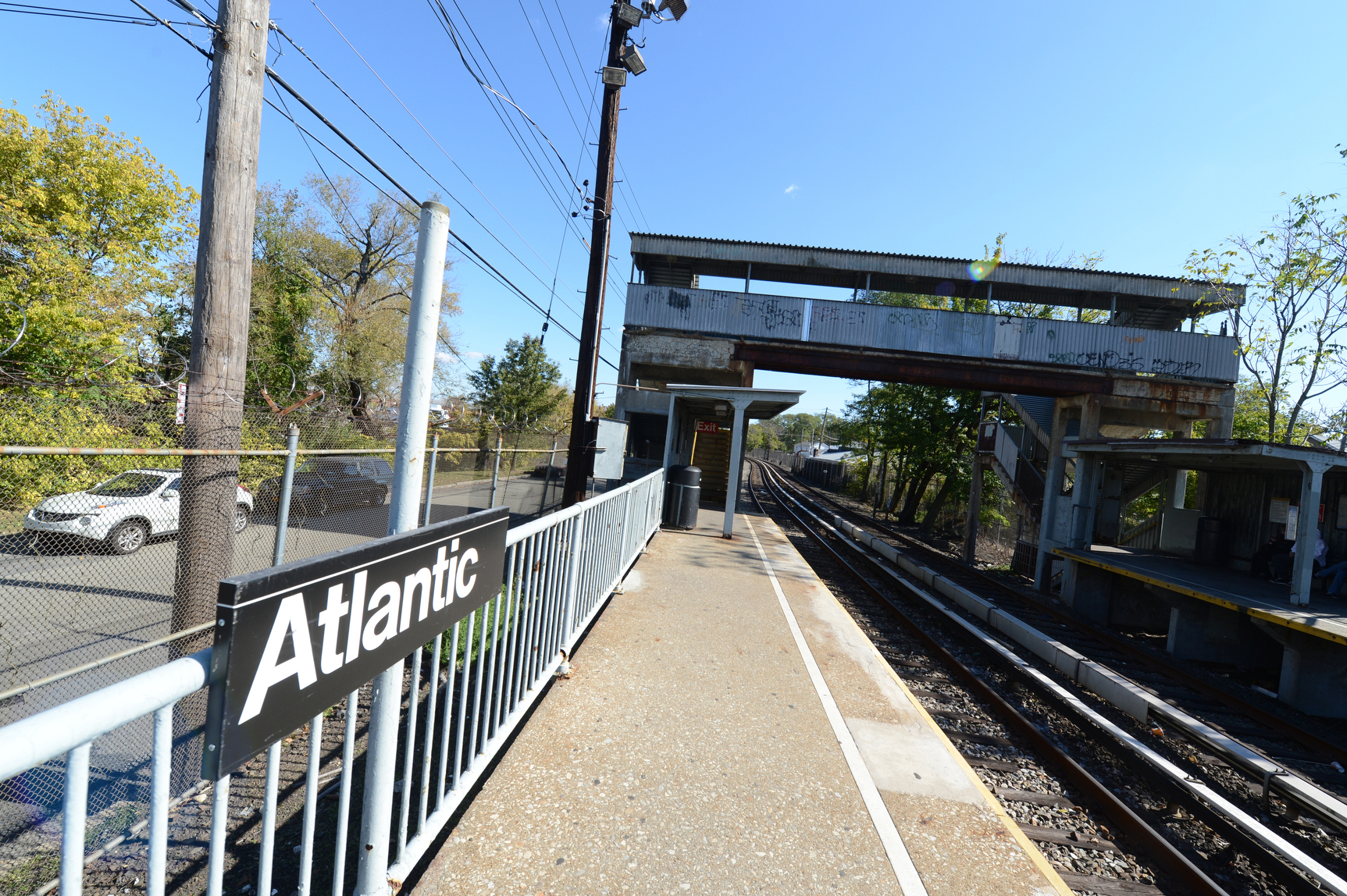 Scene at groundbreaking ceremony on the site of future Arthur Kill Station. The station, which is scheduled to be completed in 2015, will replace two others, Nassau and Atlantic (pictured), which are deteriorating and can only accommodate one train car. A unique feature of the station will be a 150-car parking lot, to be built across the street, the first such lot on the system. Photo: Marc A. Hermann / MTA New York City Transit